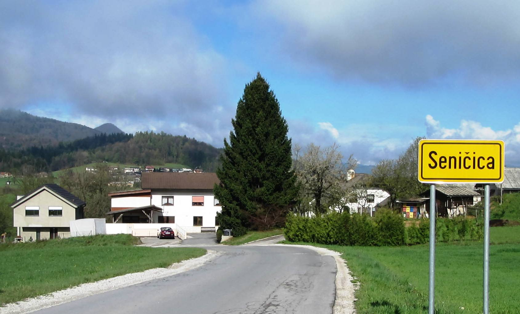 Seničica, Municipality of Medvode, Slovenia. The hamlet of Preska seen from the east.